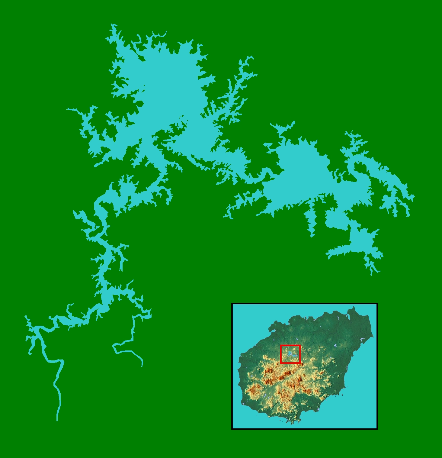 Greenfield Reservoir (Songtao Reservoir) (Chinese: 松涛水库; pinyin: Sōngtāo Shuĭkù), also known as the Songtao Reservoir Irrigation Area, Hainan, China.